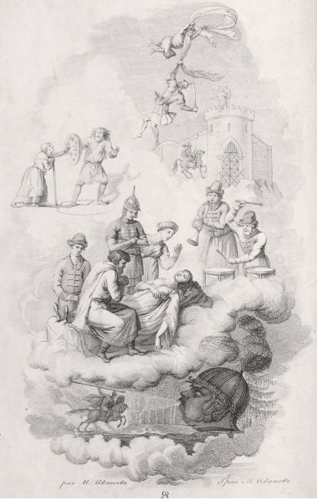 Front page of Alexander Pushkin's poem "Ruslan and Ludmila", 1820.